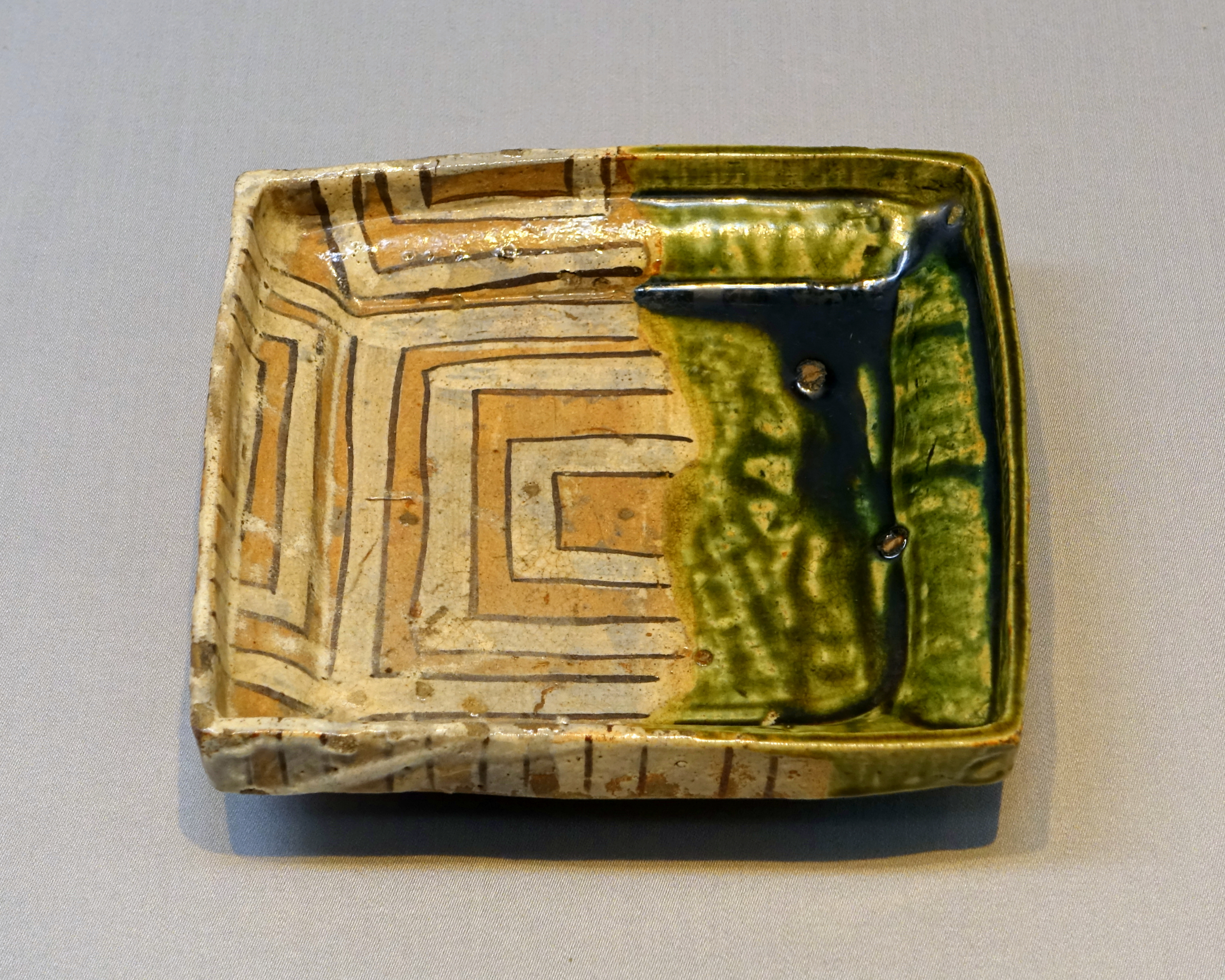 Exhibit in the Tokyo National Museum - Tokyo, Japan.